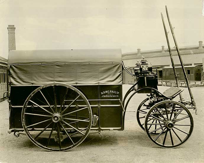 Railway Ambulance Corp wagon Dated: 1890 Digital ID: 17420_a014_a014000142 Rights: We'd love to hear from you if you use our photos. Many other photos in our collection are available to view and browse on our website using Photo Investigator .